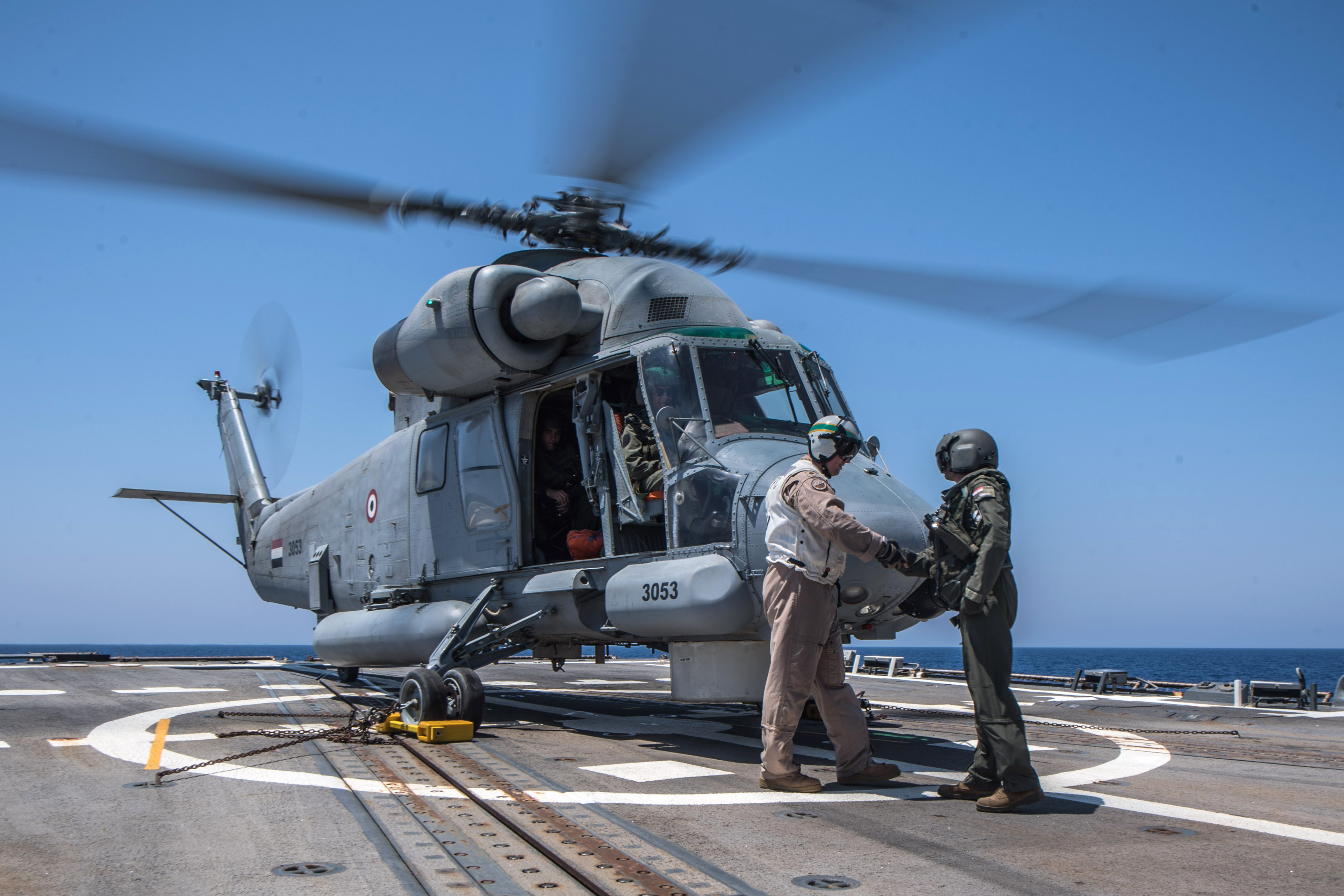 U.S. Navy Lt. Cmdr. Andrew Howerton, left, "air boss" of Helicopter Maritime Strike Squadron 48 (HSM-48) "Vipers", greets an Egyptian pilot in front of a Kaman SH-2G Super Seasprite helicopter on the flight deck of the guided-missile destroyer USS Jason Dunham (DDG-109) during exercise "Eagle Salute 18" in the Red Sea on 31 July 2018. "Eagle Salute 18" was a surface exercise with the Egyptian Naval Force conducted to enhance interoperability and war-fighting readiness, fortify military-to-military relationships and advance operational capabilities of all participating units. USS Jason Dunham was deployed to the U.S. 5th Fleet area of operations.